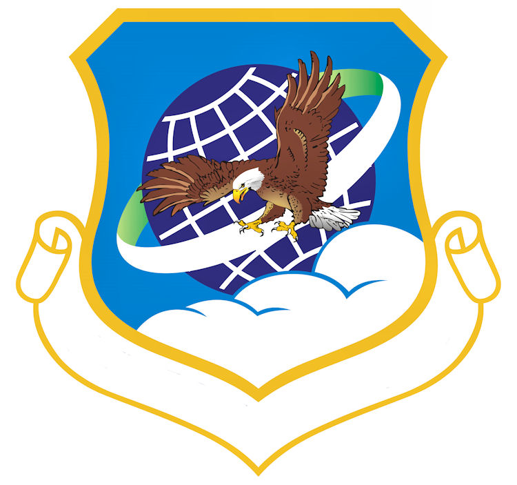 Emblem of the USAF 89th Airlift Wing (used by the 89th Operations Group with the group designation on the scroll